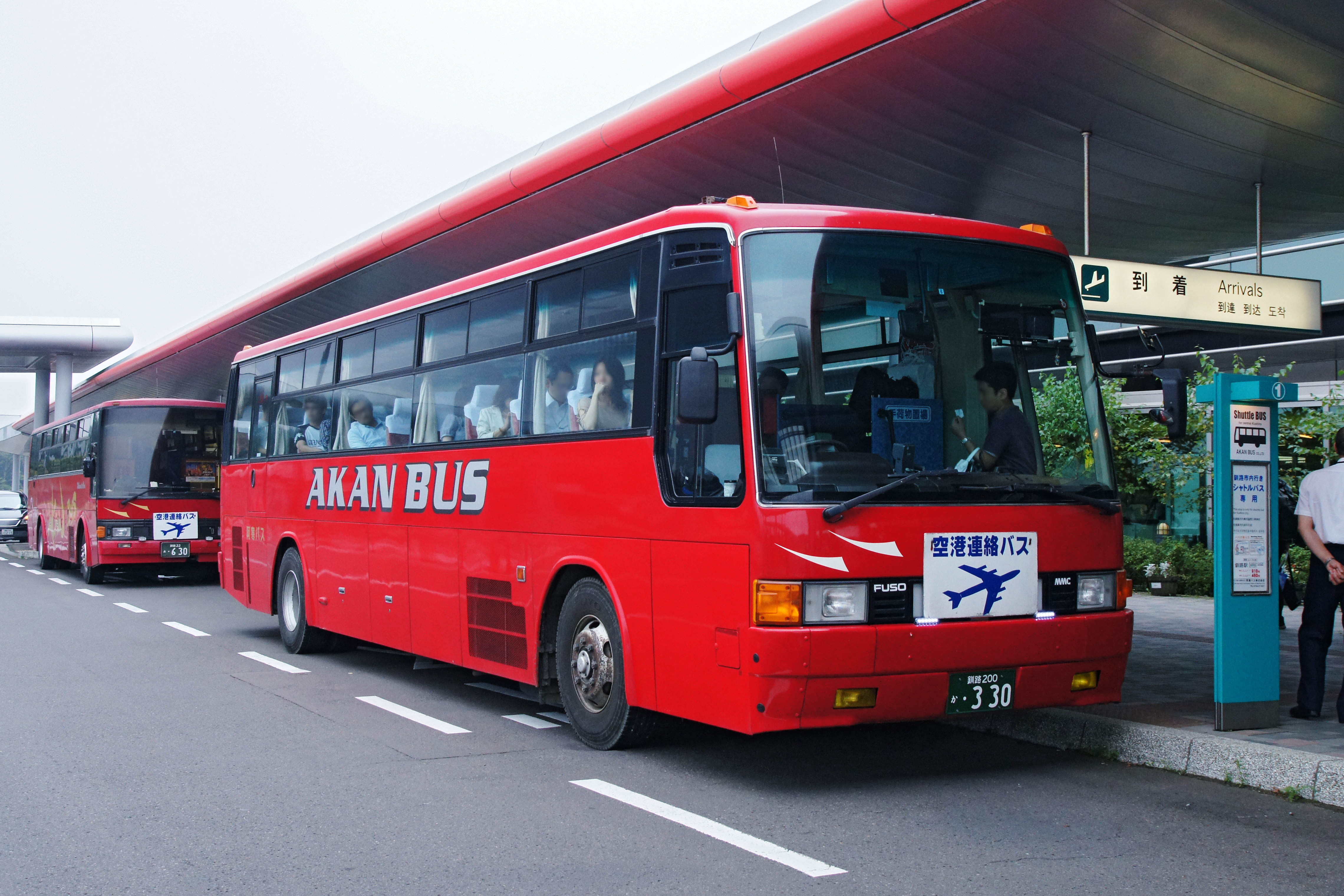 Kushiro_Airport in Kushiro, Hokkaido prefecture, Japan